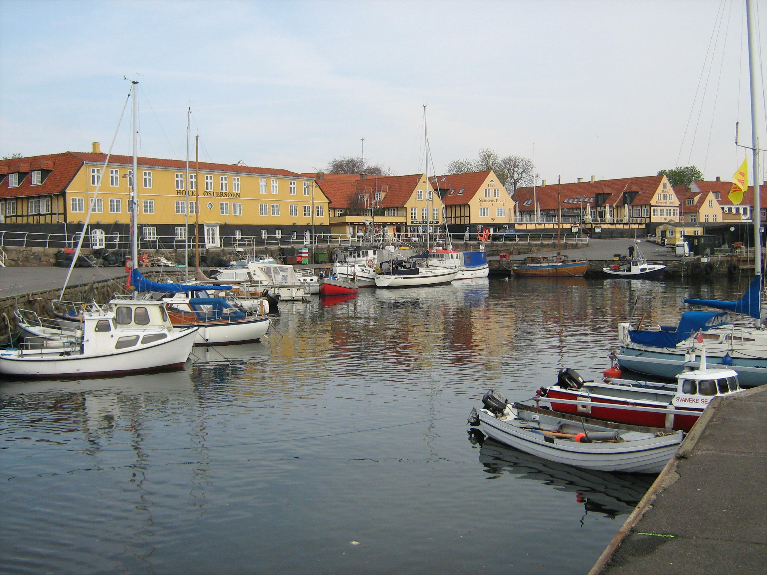 Svaneke harbour, Bornholm, Denmark